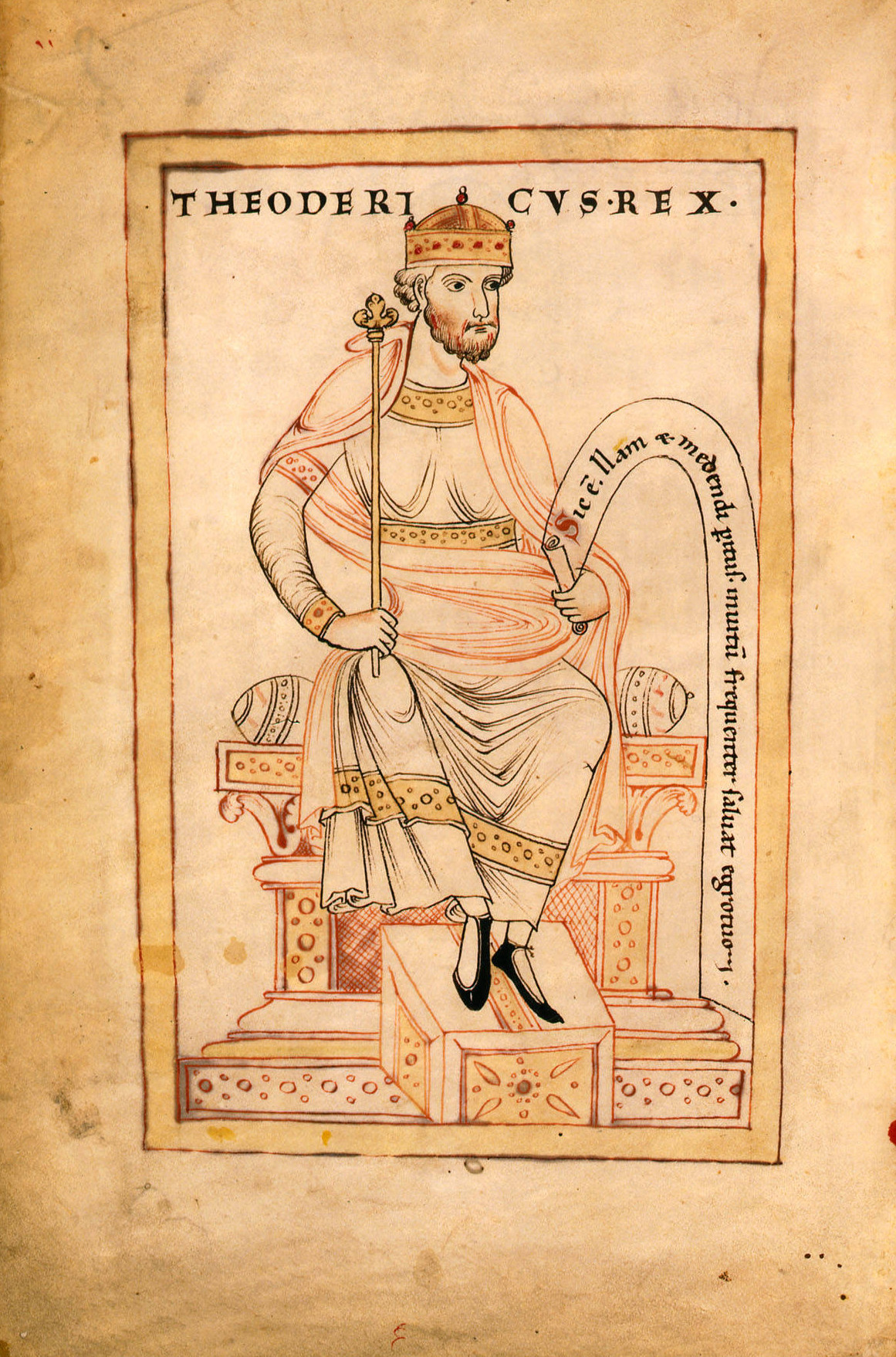 Frontispiece of Theodoric (sitting opposite Cassiodorus), from a 12th-century German manuscript. Leiden University Library, Ms. vul. 46: Gesta Theodorici. - Cassiodori Senatoris Vita. - Hugonis de S. Victore Eruditionis didascalicae. - Tractatus theologici. Latin. Manuscript on vellum. 186 ff., 220 x 125 mm. Fulda, dated 1176-7.